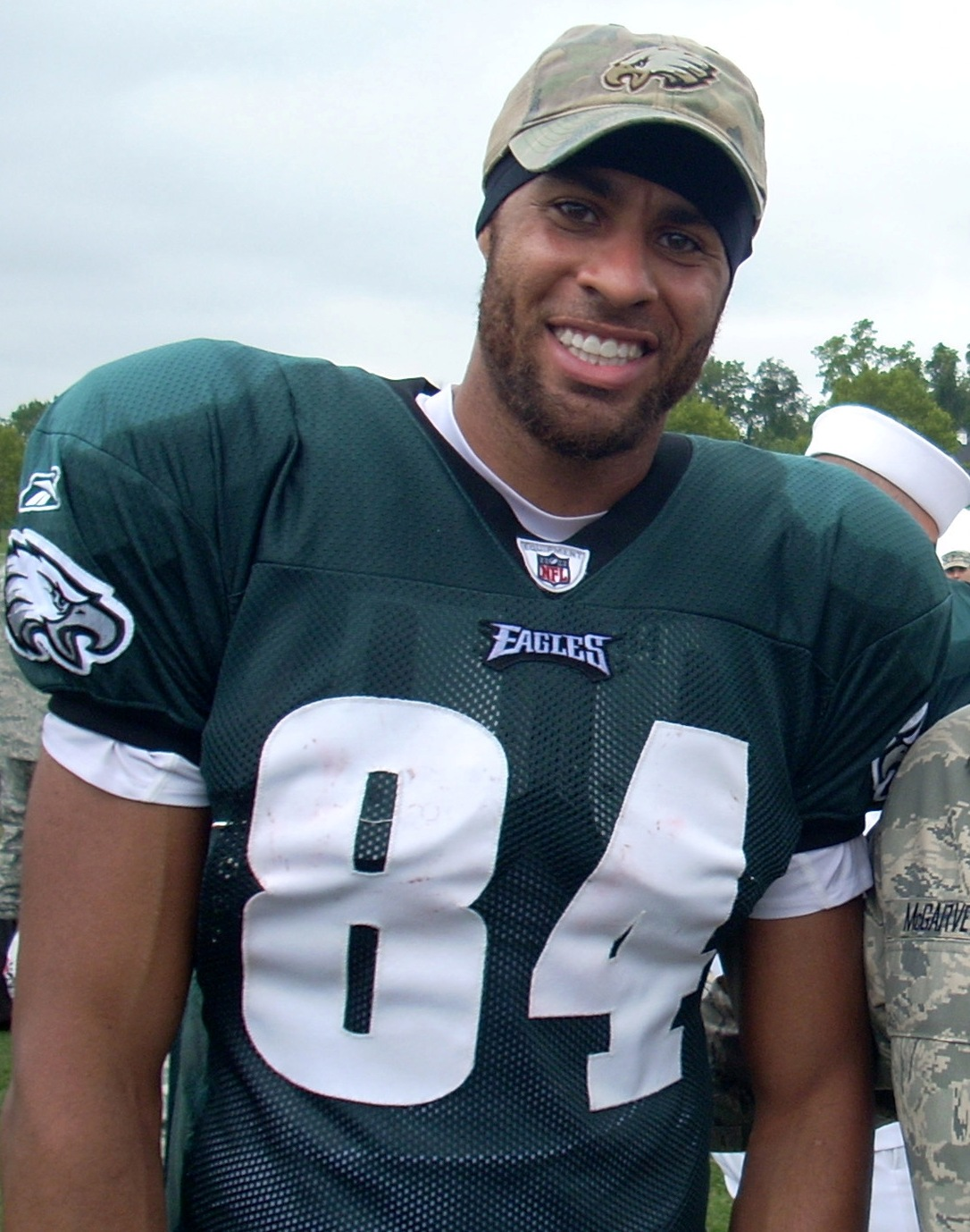 Hank Baskett at the Eagles' training camp, Aug. 3.